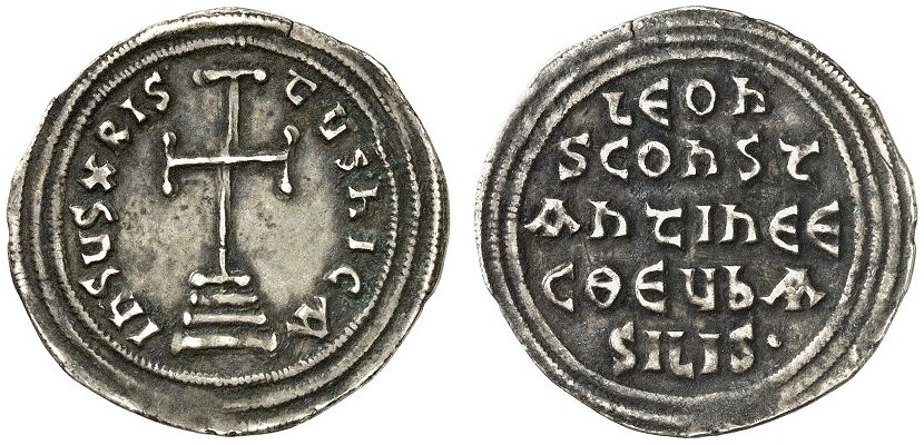 Leo III. , 717 - 741 AD Miliaresion (2,1g). Konstantinopel. IhSVS XRIS-TVS nICA, LEOn / S COnST/AnTInE E/C ΘEV bA/SILIS; Sear 1512.